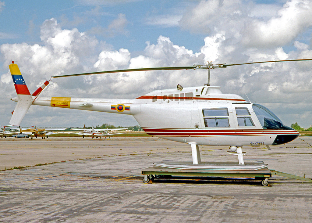 Bell 206B Jet Ranger GN-7956 of the Venezuela National Guard at Opa Locka Airport Miami in 1979